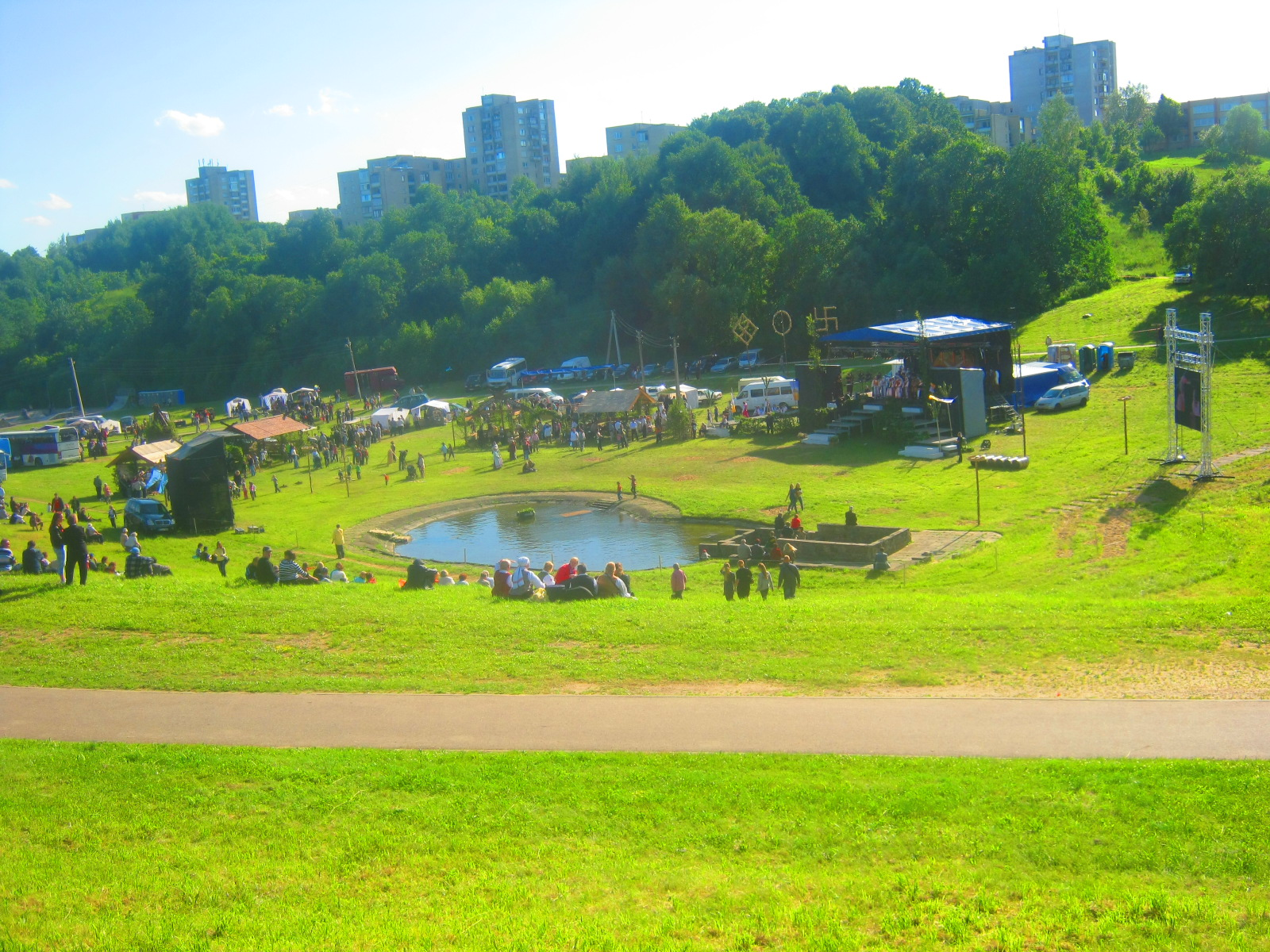 Day 3, Start